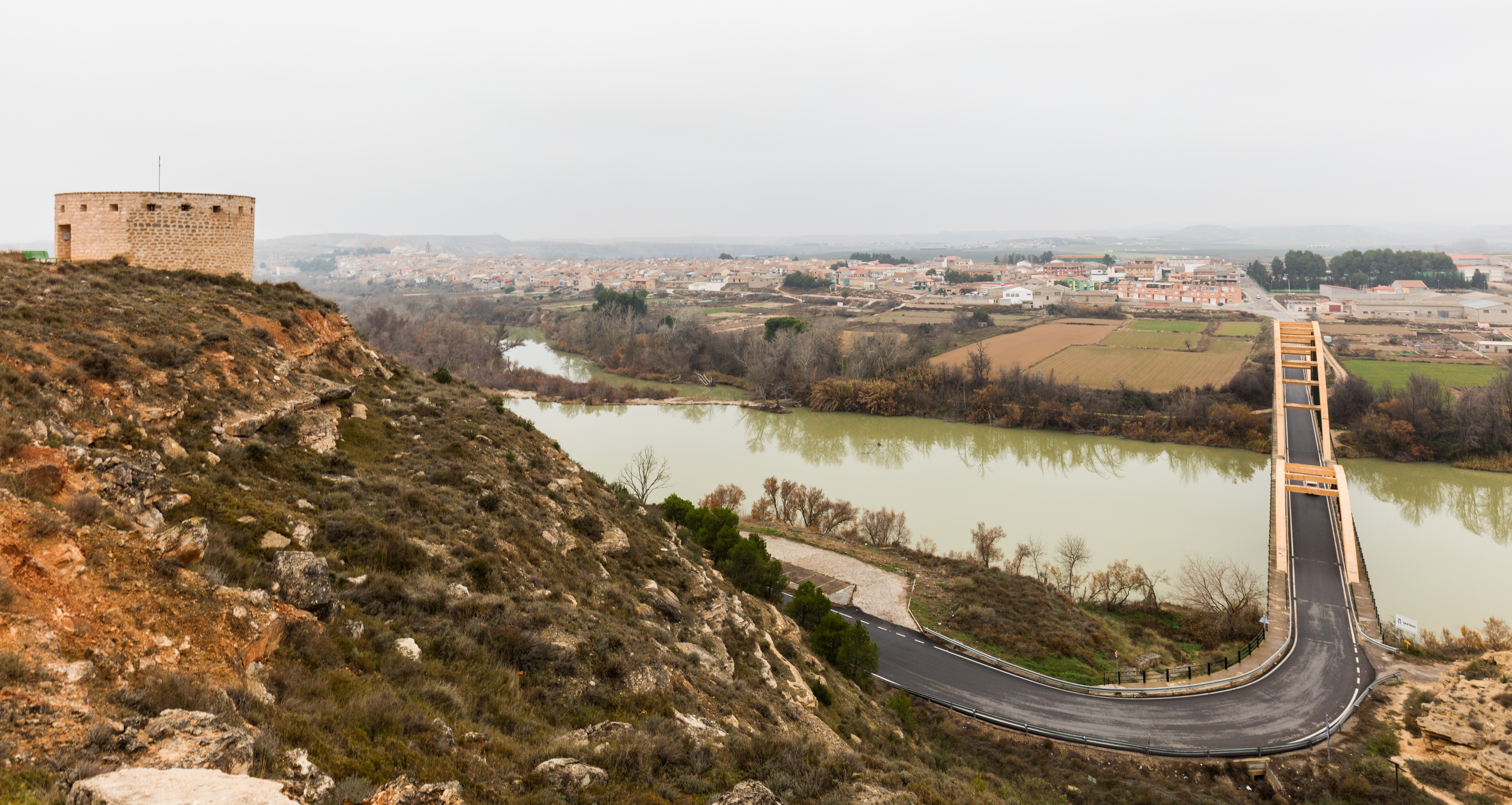 Tambor Tower and Bridge over the Ebro River, Sástago, Zaragoza, Spain